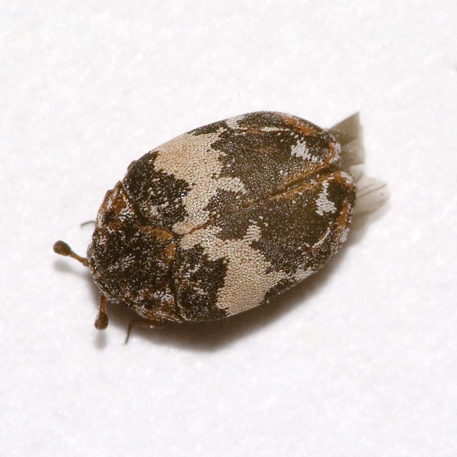 Anthrenus pimpinellae in Dresden (Saxony, Germany)